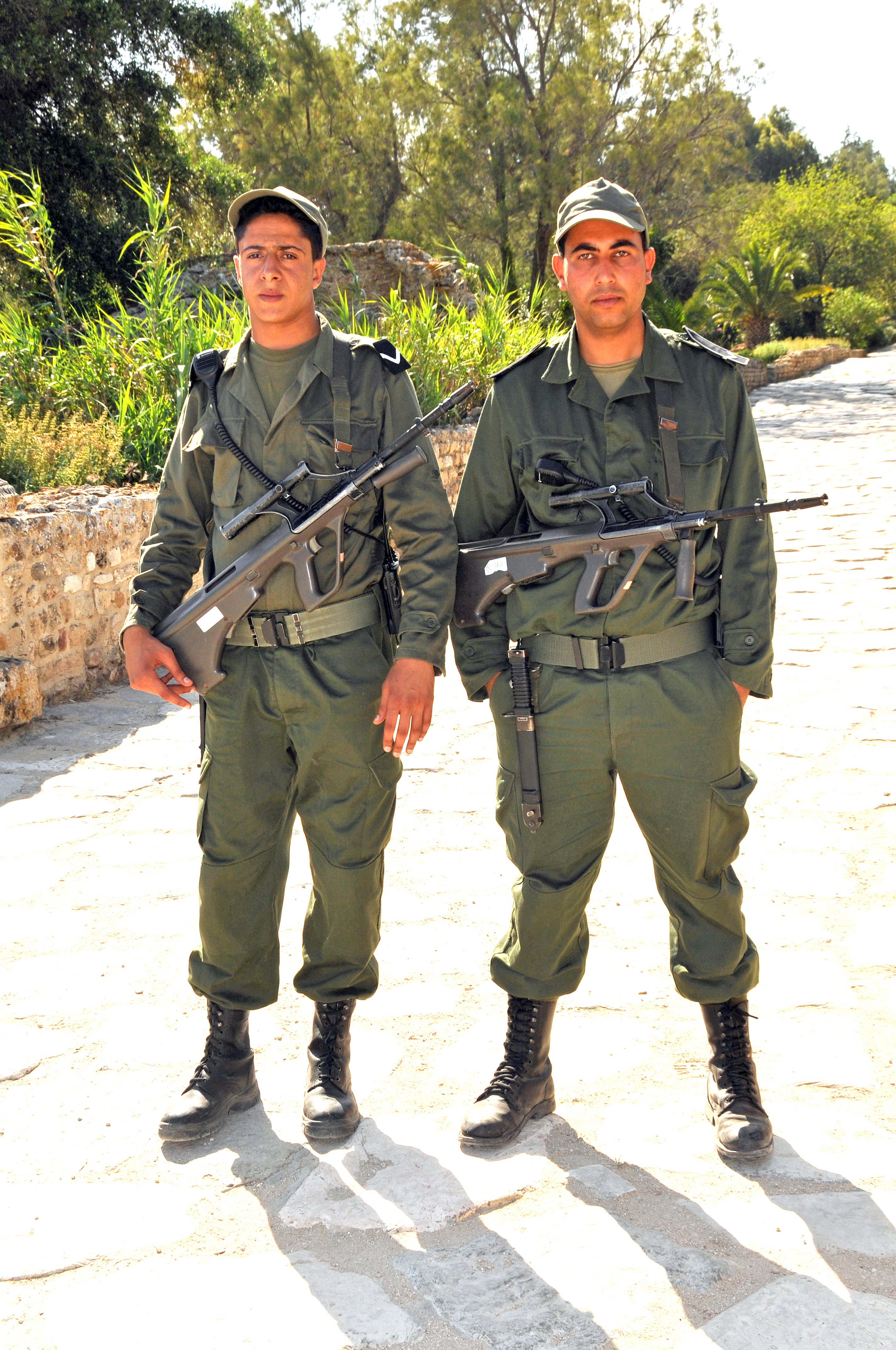 Tunisian soldiers present near the Antonine Baths as the President has a seaside residence in the area. The gun is a Steyr AUG, an Austrian bullpup 5.56mm assault rifle, designed in the early 1970s by Steyr Mannlicher GmbH & Co KG.